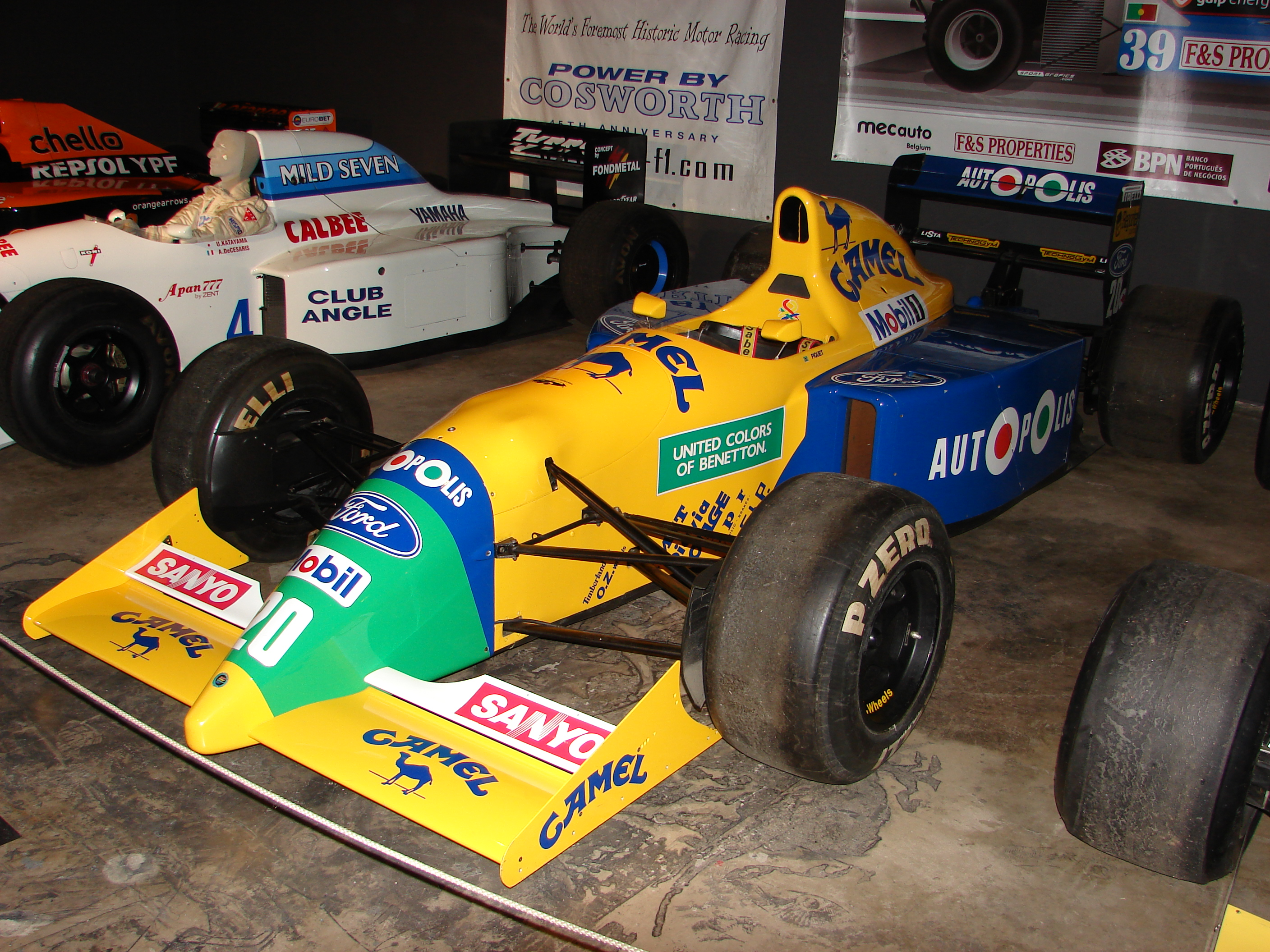 Benetton B190B, Formula One car driven by Nelson Piquet during the 1991 season.